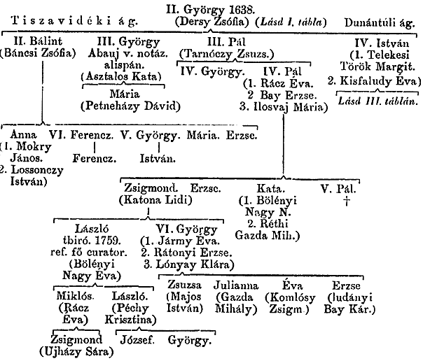 Chernel family tree II.